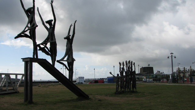 Flight of the Earls A bronze statue depicting the Flight of the Earls from Ireland in 1607.The statue was unveiled by the President of Ireland, Mary Robinson on 14th.September 2007.The statue shows the Earls saying goodbye to their people and was commissioned by Rathmullan and District Local History Society.It was made by sculptor John Behan RHA.